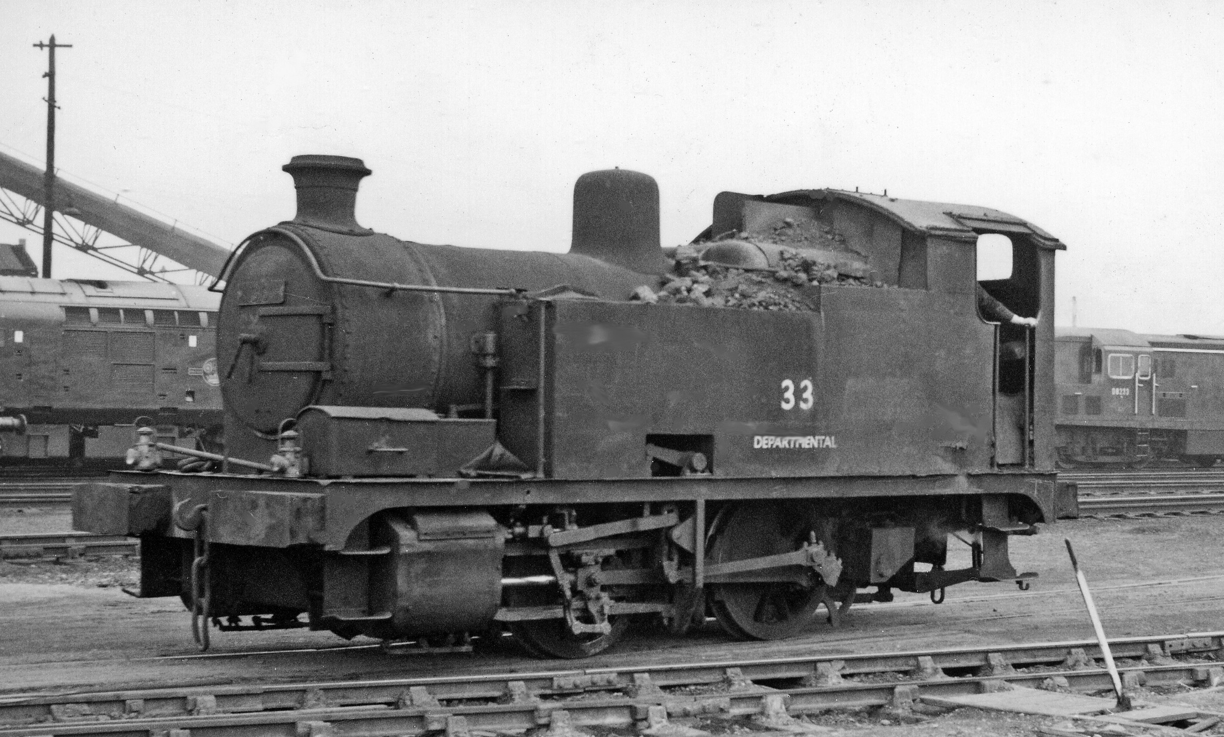 Departmental (Service) locomotive at Stratford Locomotive Depot. No. 33 is a former ex-GE Y4 0-4-0T (No. 8129) demoted to working in the confines the Locomotive Works Yard at Stratford. By 1961 the whole District was being rapidly 'dieselised', as evidenced by the Type 4 on the left and the Type 1 on the right.